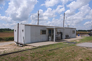 Fulton station visited in July 2013